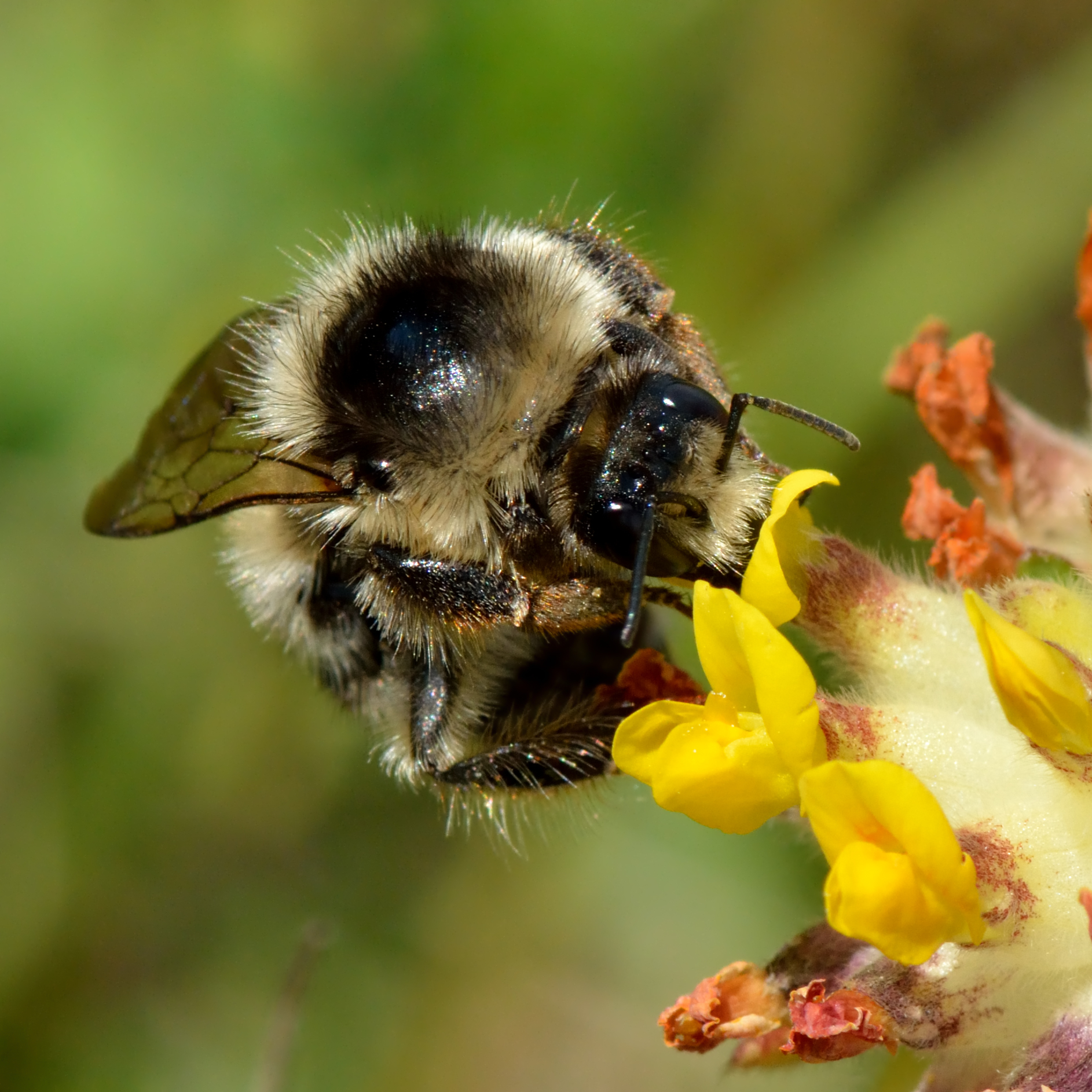 Shrill carder bee (Bombus sylvarum) on the common kidneyvetch (Anthyllis vulneraria). Keila, Northwestern Estonia.